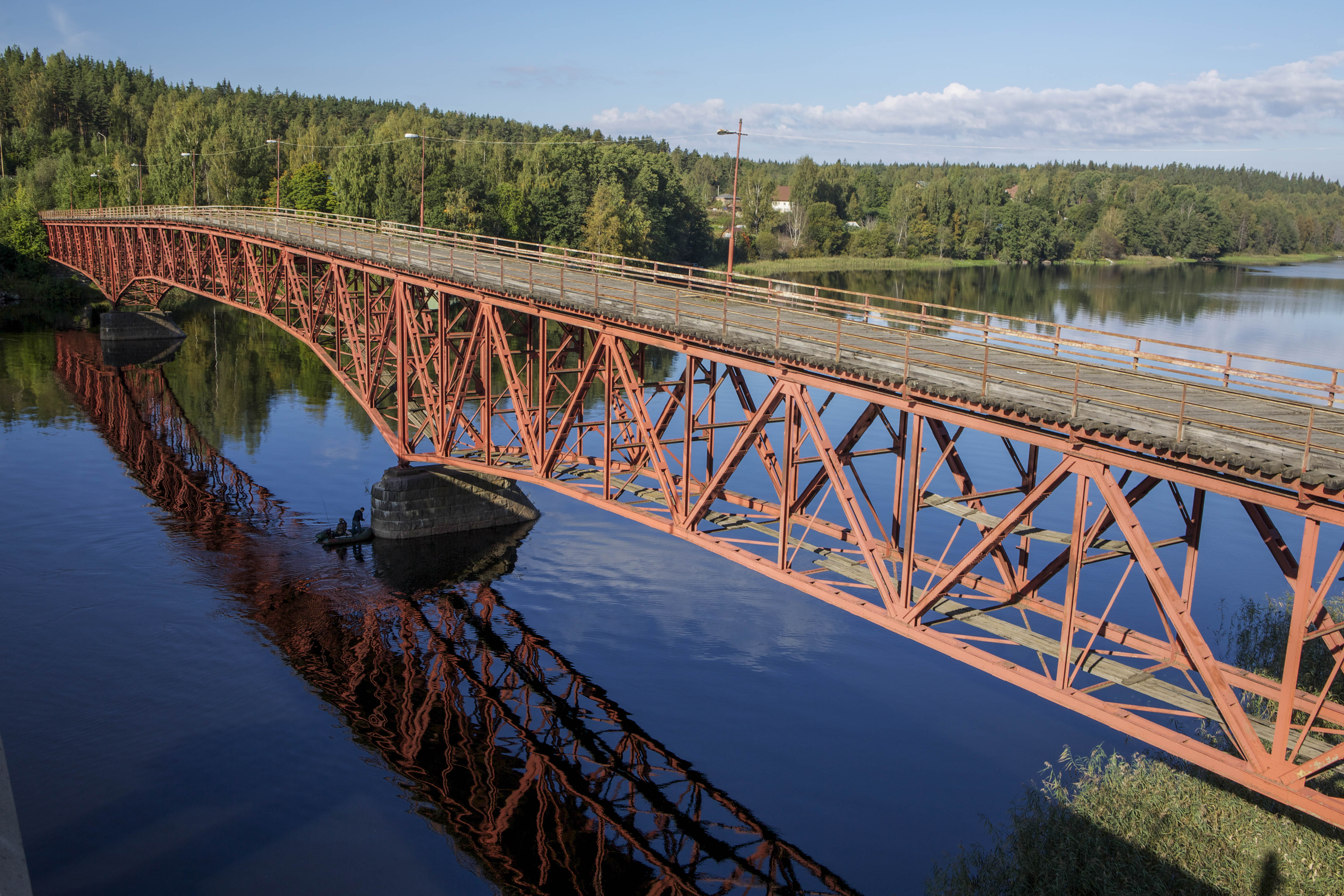 Kuukauppi bridge and Vuoksi river, Karelian Isthmus, Russia